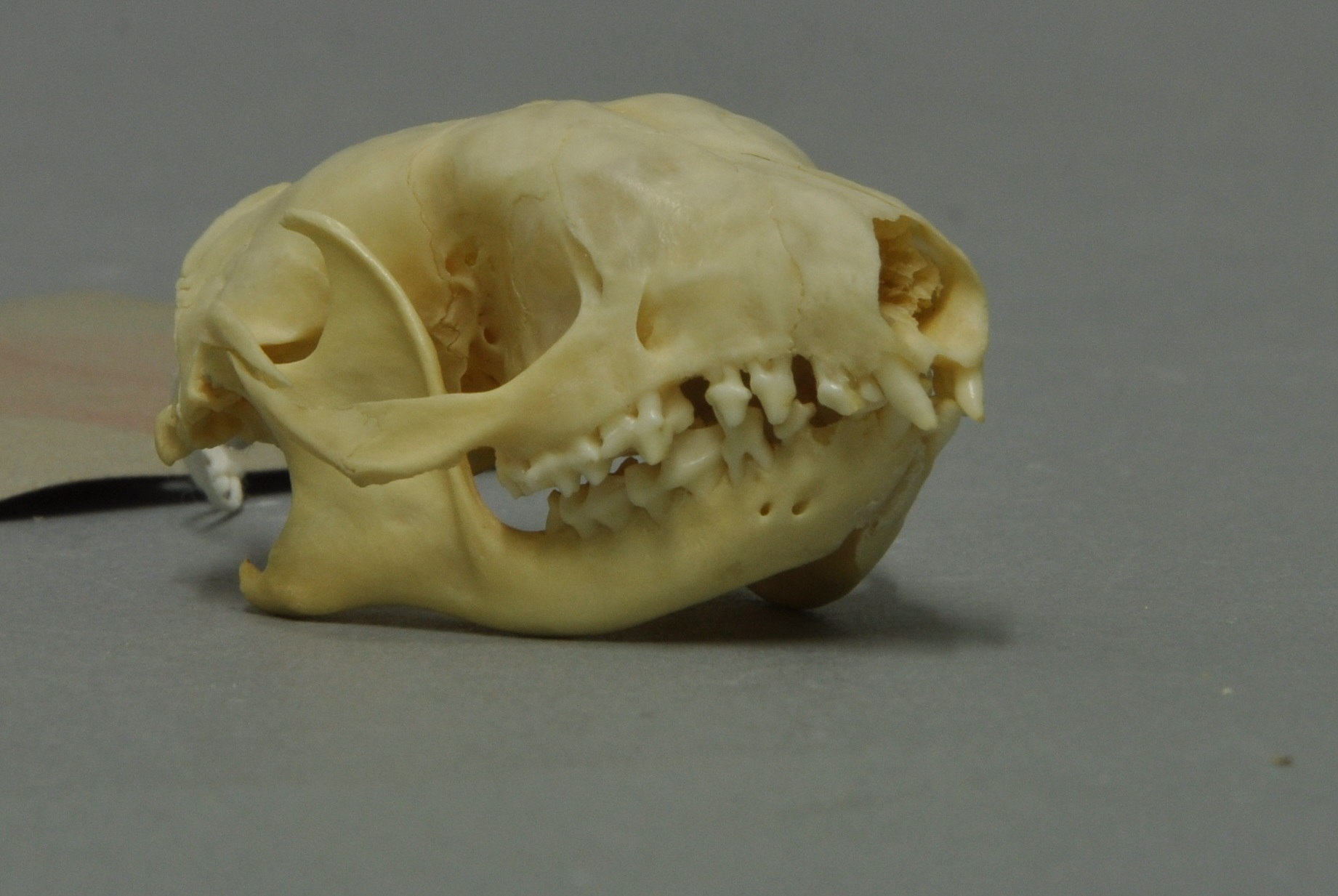 Four-toed Hedgehog Atelerix albiventris, skull, Coll. Museum Wiesbaden